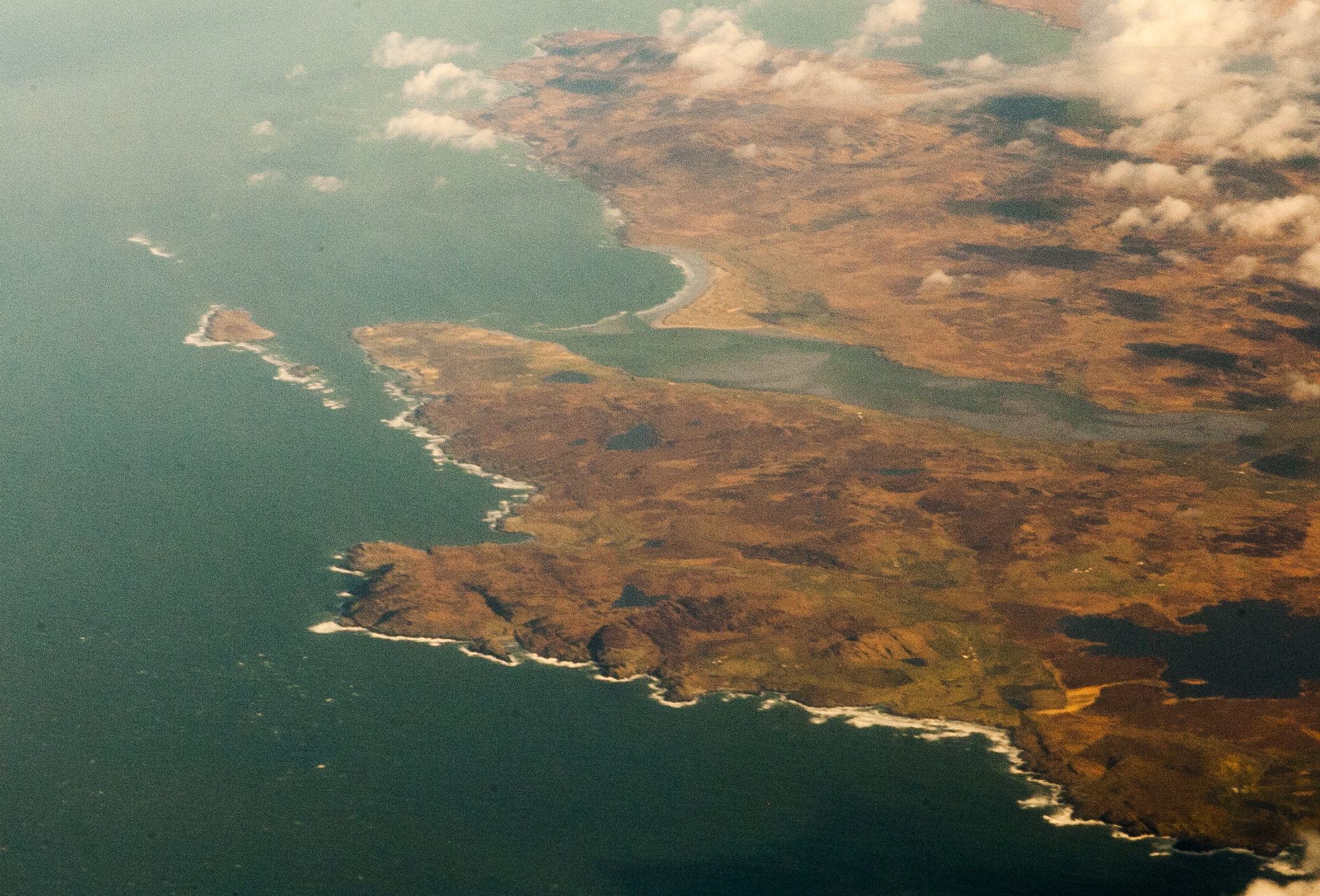 The island of Islay in Scotland. Loch Gruinart is in the middle. Loch Gorm is on the right.